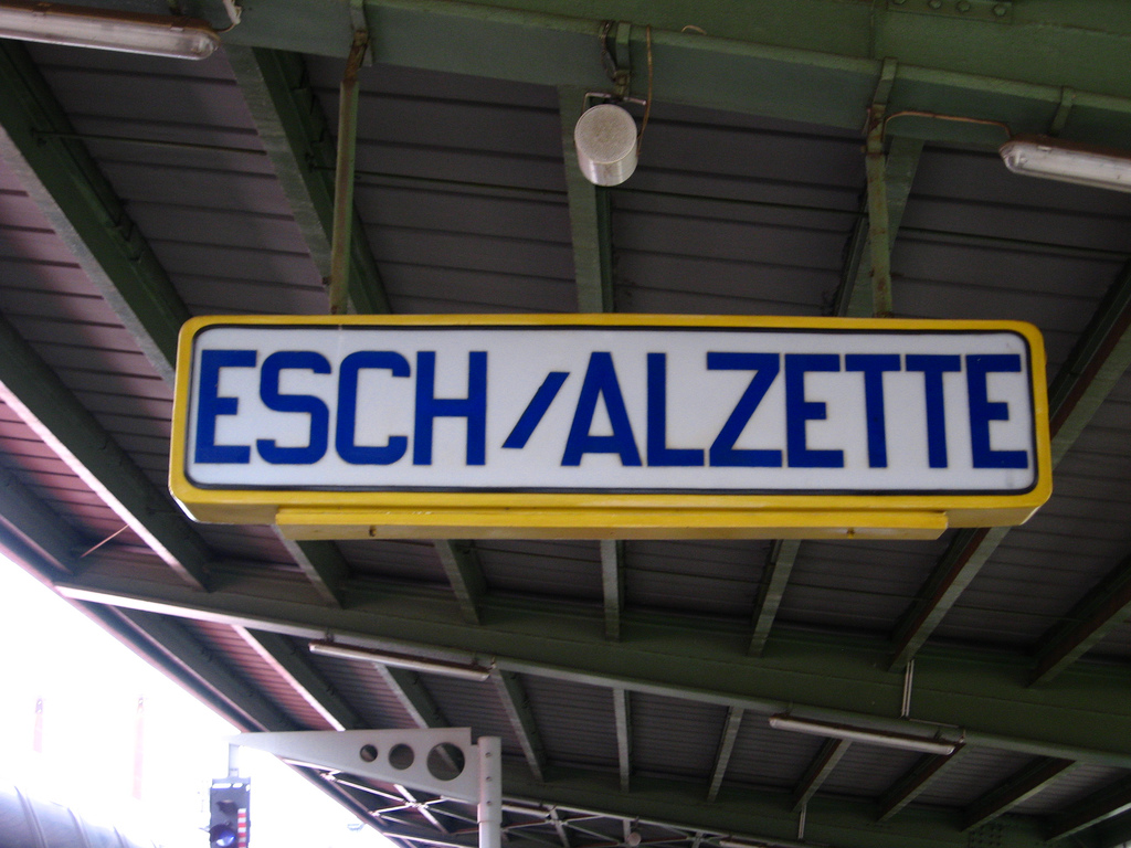 Station sign, Esch-sur-Alzette CFL, Luxembourg